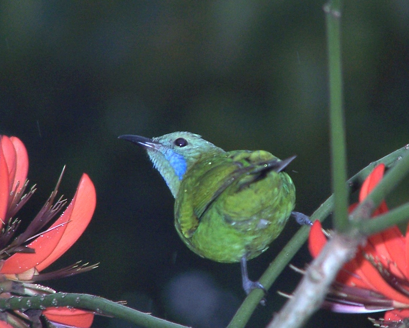 Orange-bellied Leafbird.